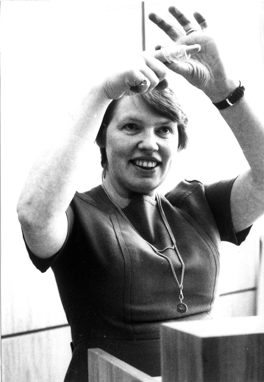 Family planning campaigner, Dr Caroline Deys, demonstrating a condom in a lecture in 1972.